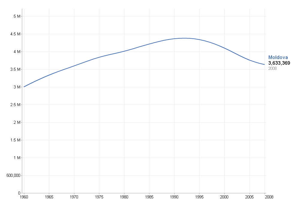 Demographics of Moldova